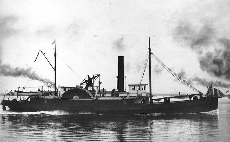 This file is a work of a sailor or employee of the U.S. Navy, taken or made as part of that person's official duties. As a work of the U.S. federal government, the image is in the public domain. This file has been identified as being free of known restrictions under copyright law, including all related and neighboring rights.